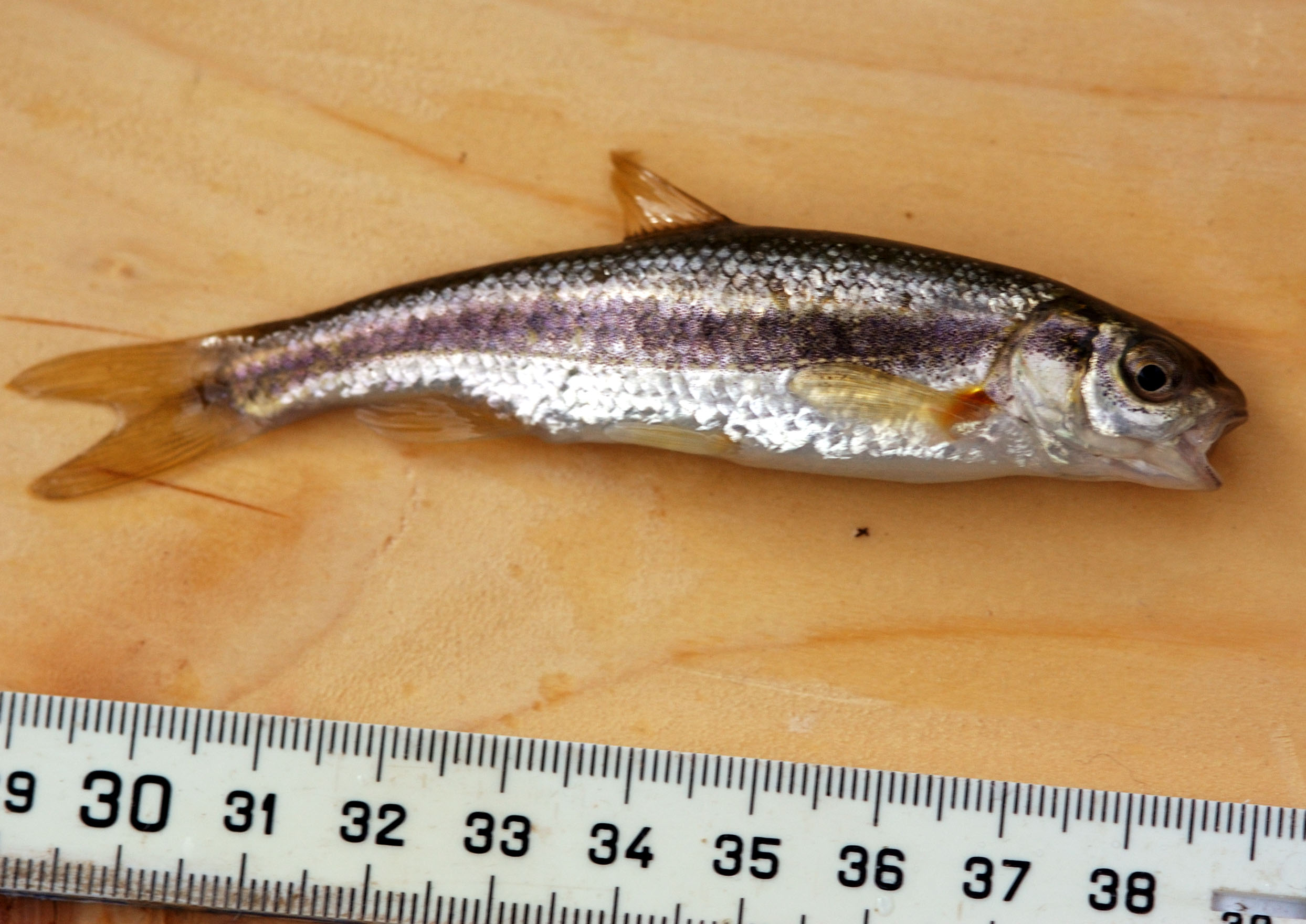 Telestes muticellus collected in central Italy (Tiber drainage). Photo by Andrea Tiberi.